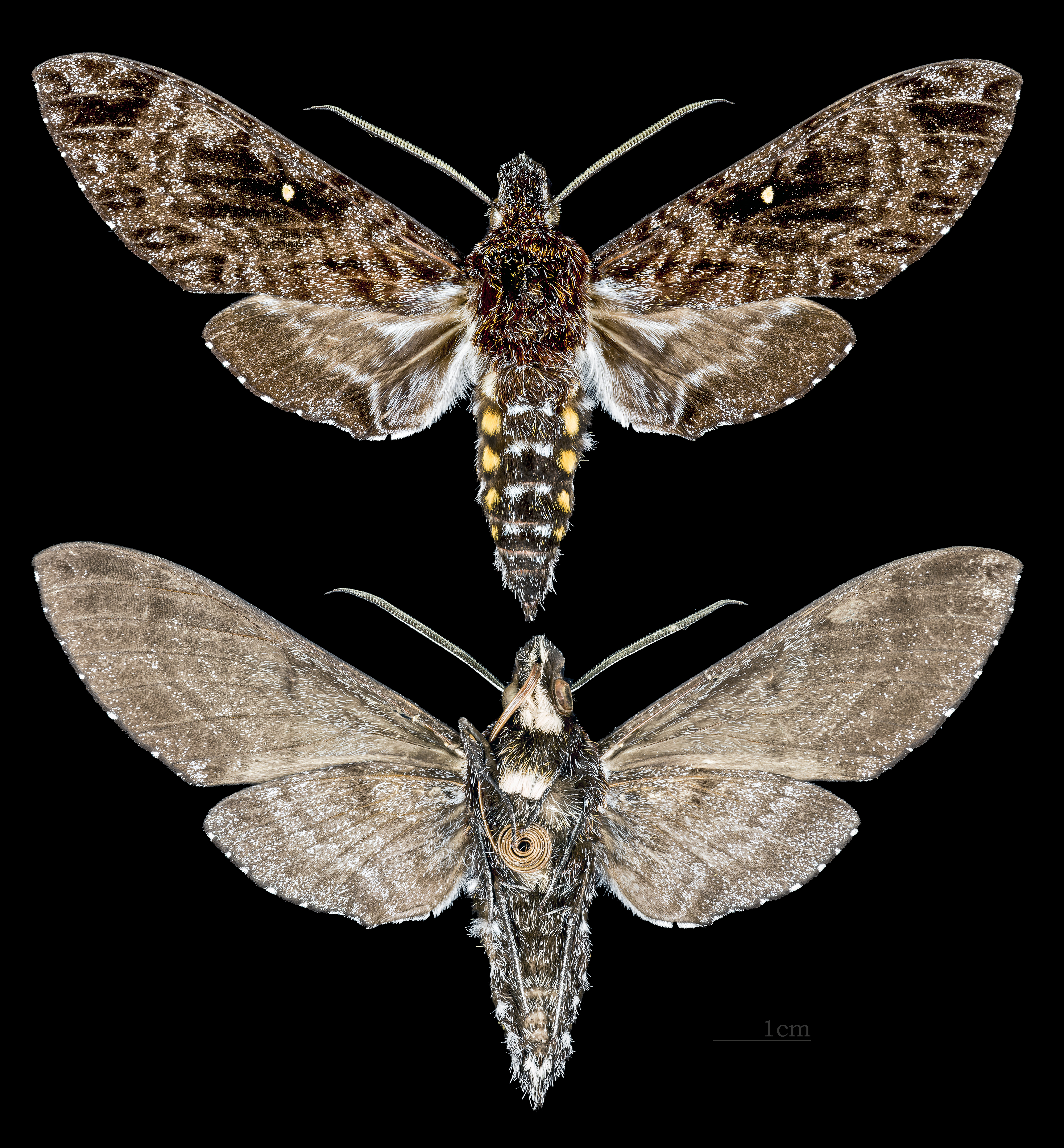 Euryglottis albostigmata - Two views of same specimen Collection of the Mathematician Laurent Schwartz